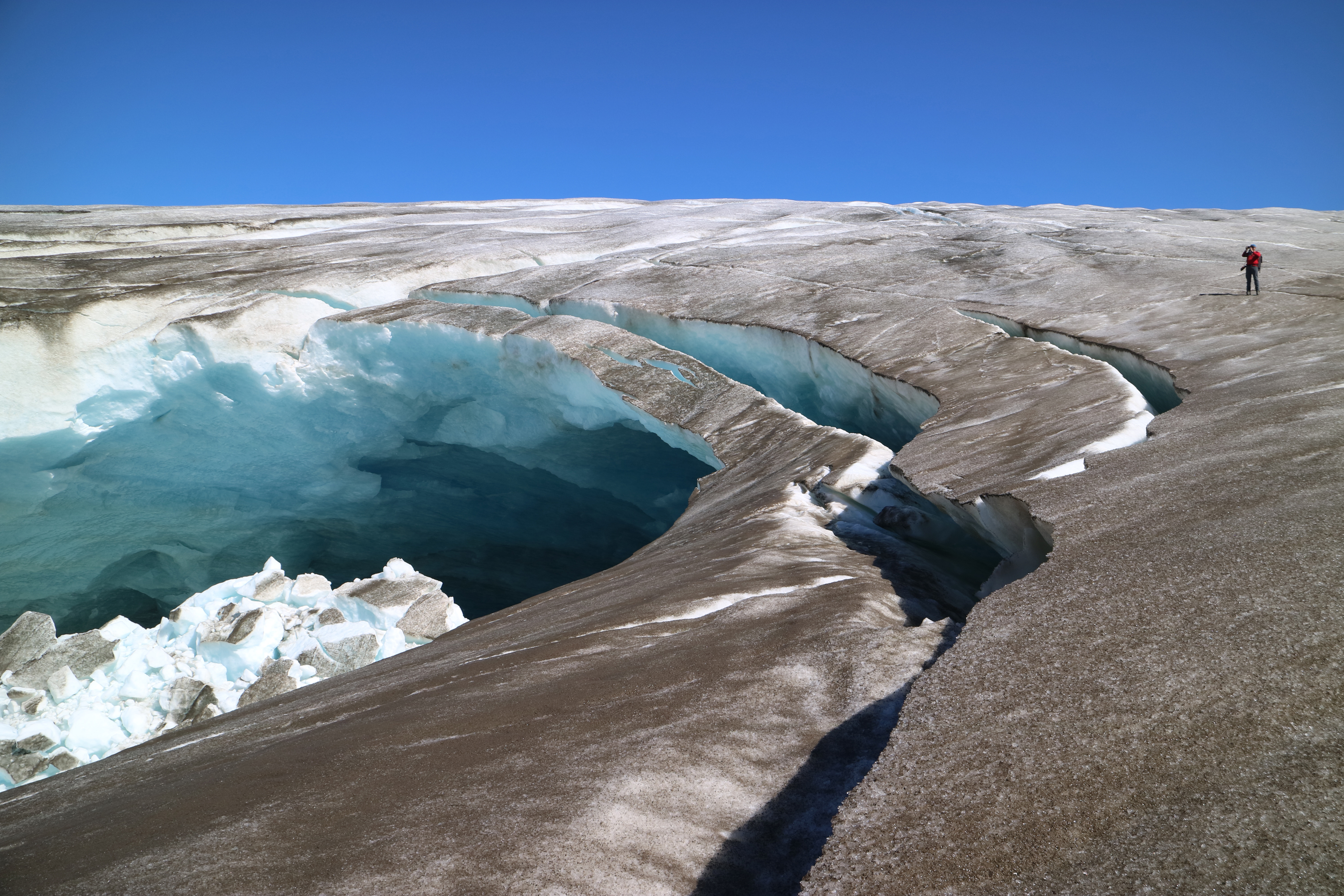 Glacier mouth of Mittivakkat